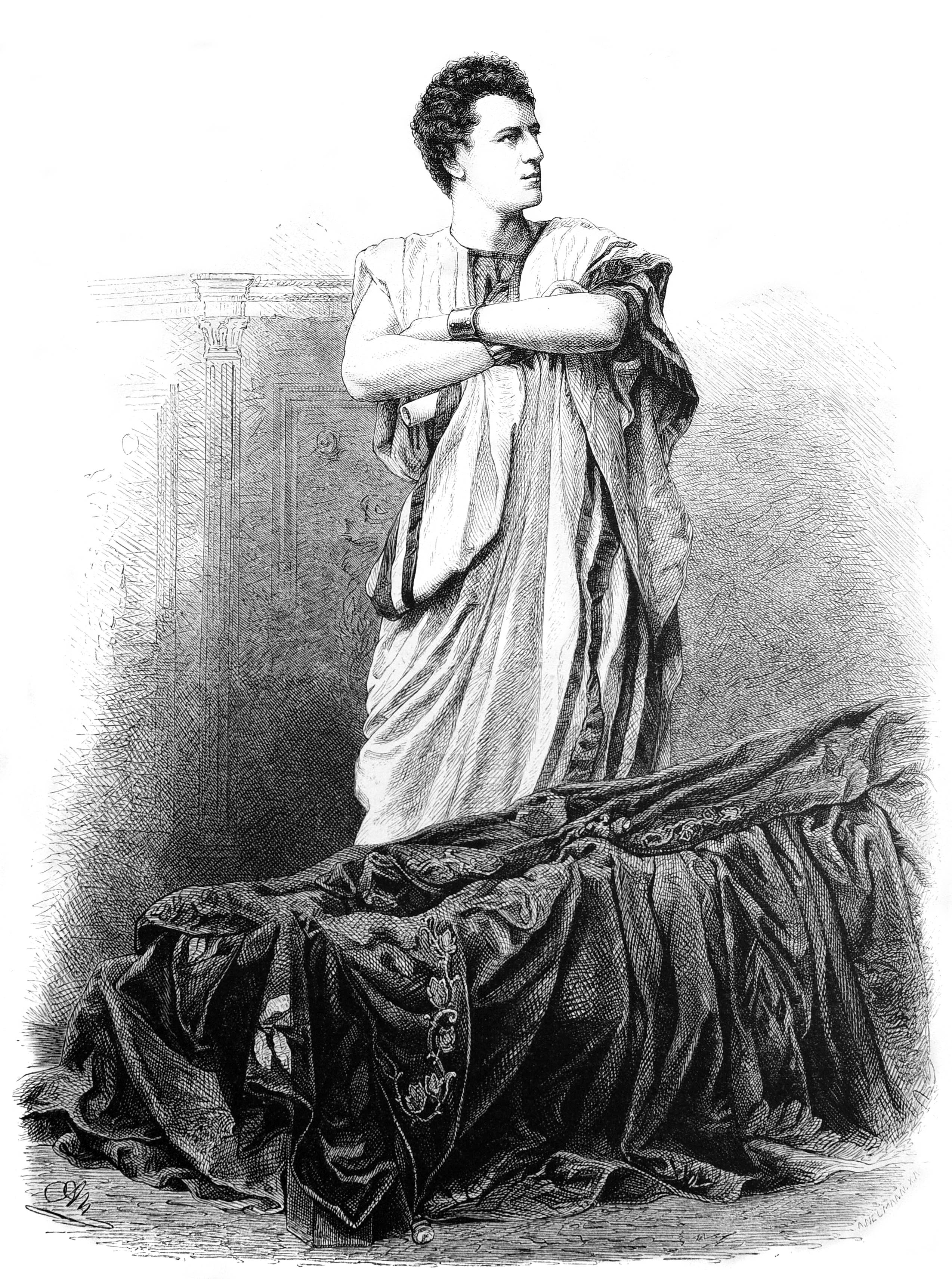 caption: "Ludwig Barnay als „Mark Anton“. Originalzeichnung von Adolph Neumann."